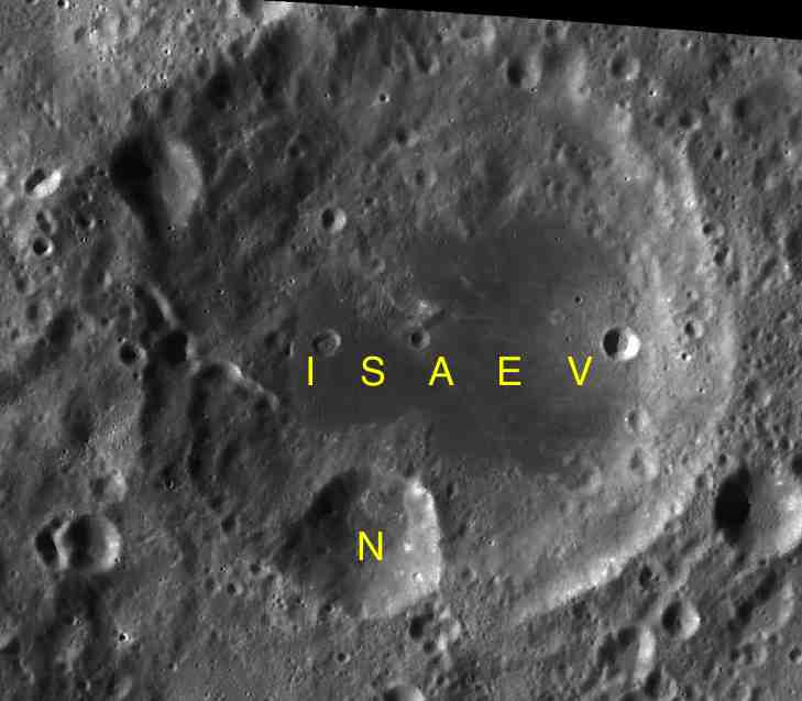 Part of the chart LAC-102 used for the presentation